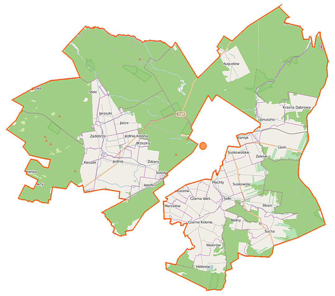 Map of Gmina Pionki, PolandThis map of Pionki (gmina wiejska) was created from OpenStreetMap project data, collected by the community. This map may be incomplete, and may contain errors. Don't rely solely on it for navigation.